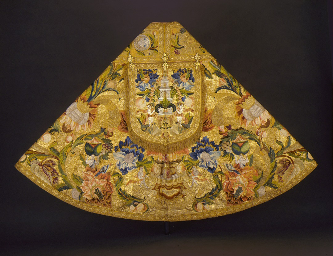 Mexico, circa 1730 Costumes; ecclesiastical Silk satin with silk and metallic thread embroidery, and metallic braid trim Costume Council Fund (M.85.96.7a-b) Costume and Textiles